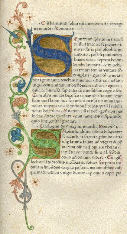 Honorius Augustodunensis. De Imagine Mundi. Nuremberg, ed. Anton Koberger